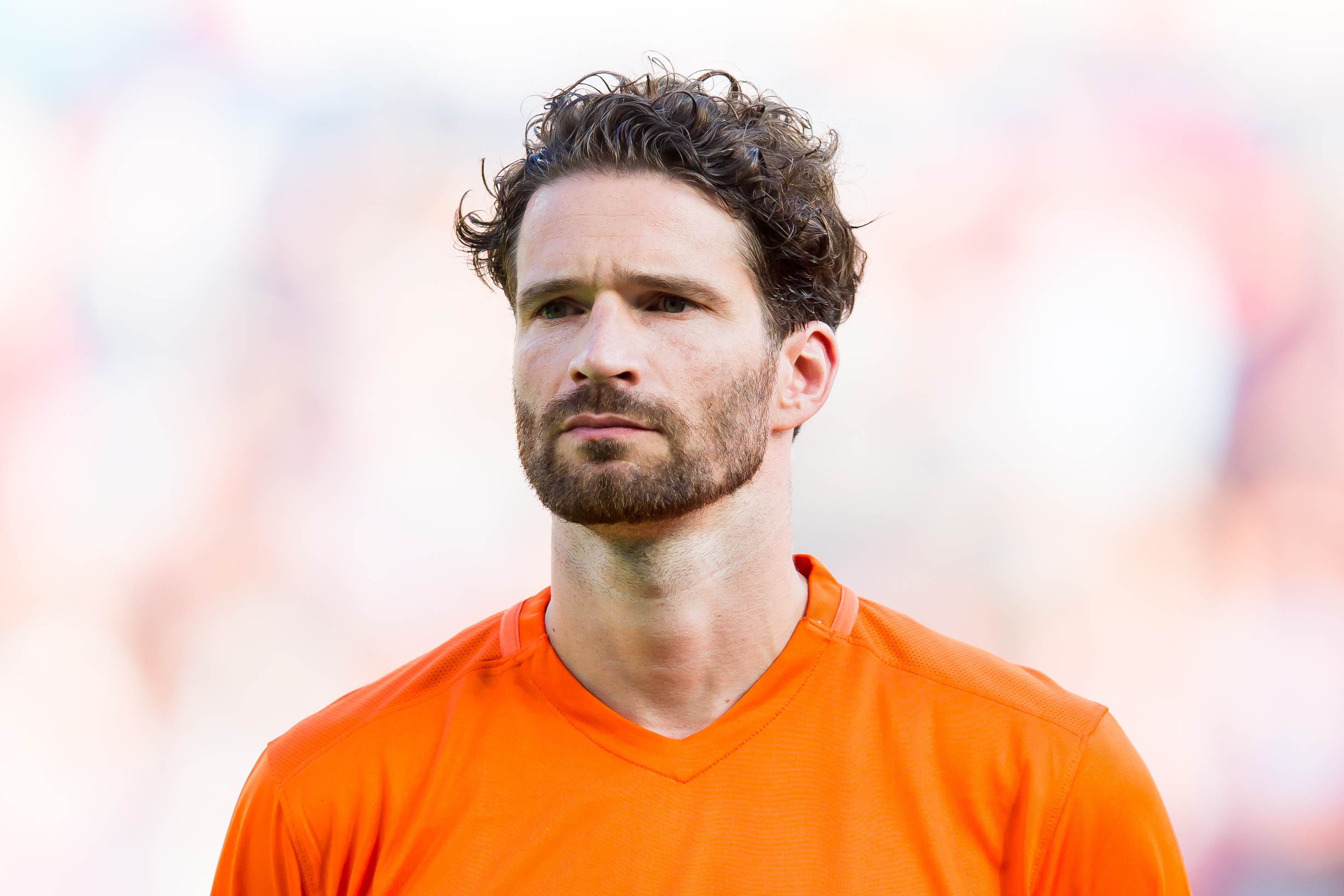 during football match between Nowitzki All Stars and Nazionale Piloti in honor of Michael Schumacher at Opel Arena, Mainz, Rheinland Pfalz, Germany on 2016-07-27, Photo: Sven Mandel